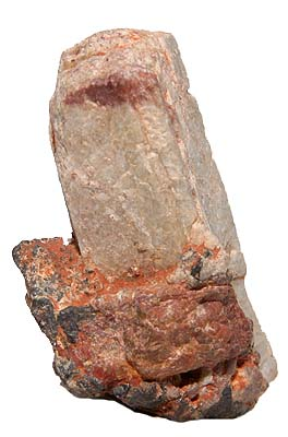 Thortveitite Locality: Ljoslandsåsen (Hålandsgruva), Iveland, Aust-Agder, Norway (Locality at ) Size: miniature, 4 x 2 x 2 cm Thortveitite This ugly beast is one of the most impressive examples of the species, tha tI thikn could exist. It is a 3-dimensional, sharp, well-formed, 4cm crystal of this rare scandium-containign species. It is from the noted collection of Jean Behier.